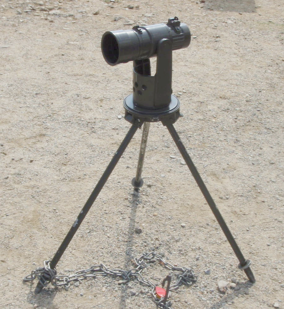 collimator(mortar weapon)